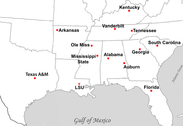 Locations of the SEC member schools in 2012, Texas A&M included